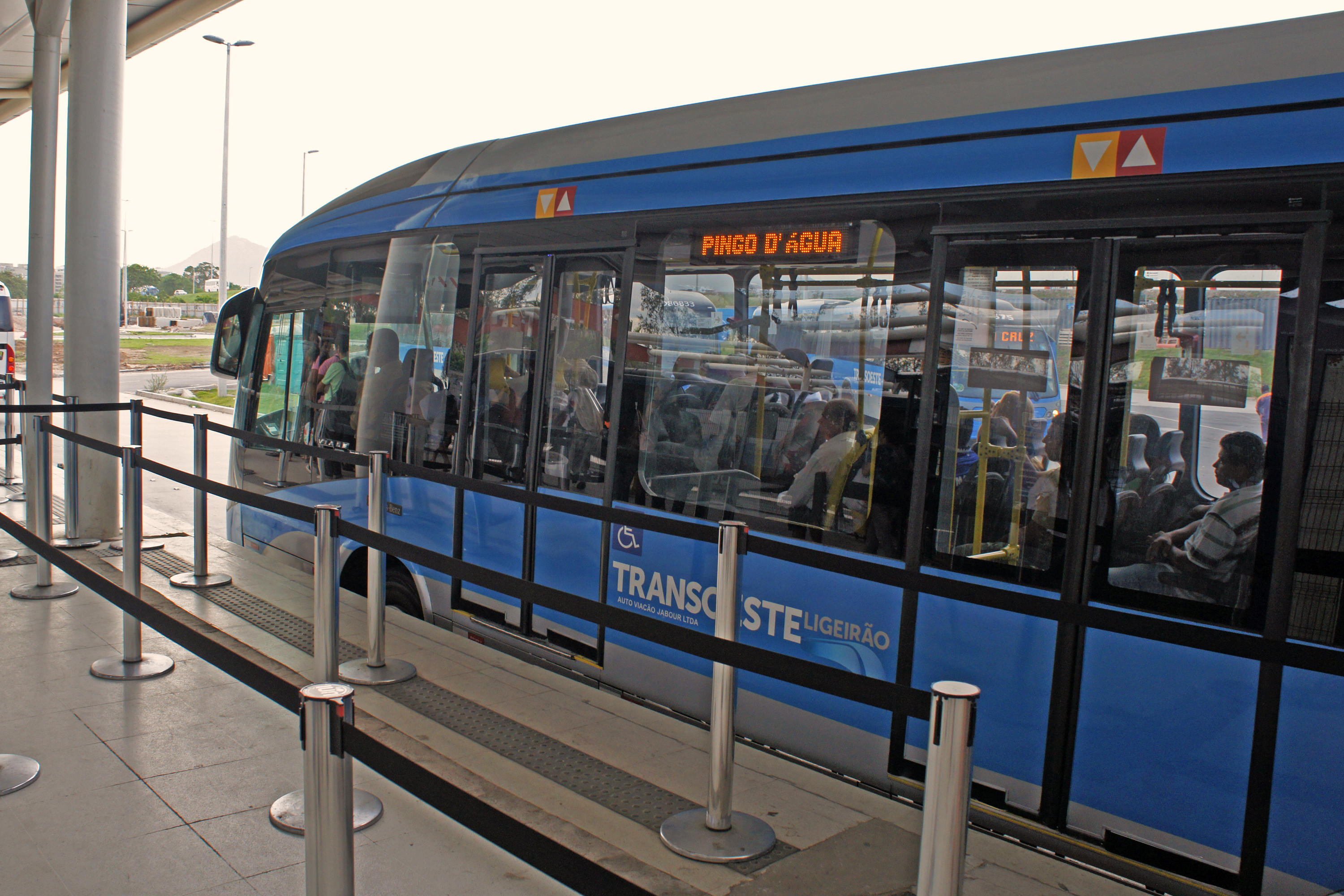 BRT TransOeste, Terminal Alvorada, Barra de Tijuca, Rio de Janeiro